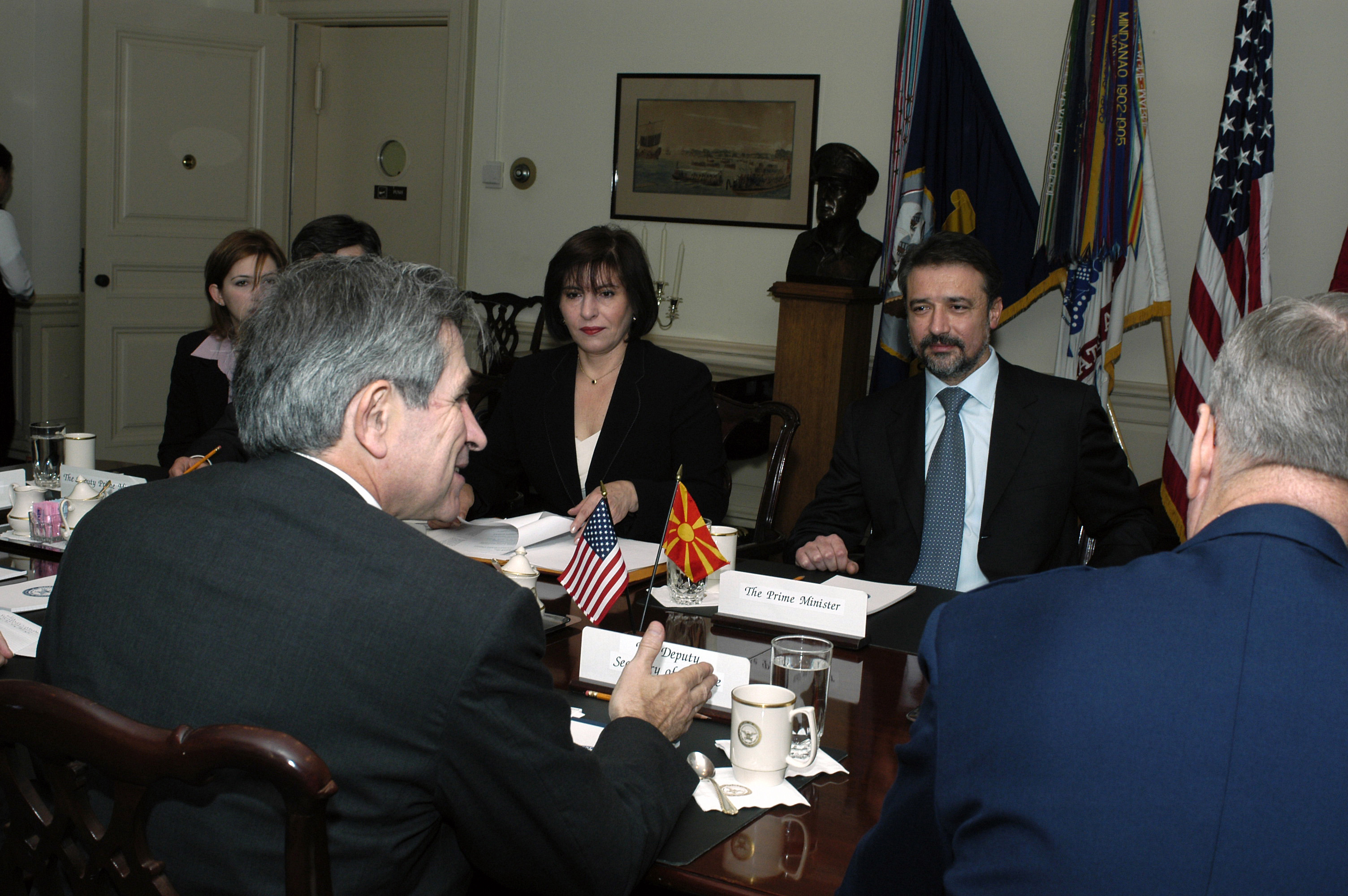 Deputy Secretary of Defense Paul Wolfowitz (left) with Prime Minister Branko Crvenkovski (facing right) and Minister of Foreign Affairs Ilinka Mitreva (center) of Macedonia on Nov. 25, 2003.